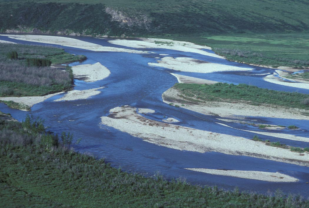 Aerial view of the Chandalar River in summer at the Arctic National Wildlife Refuge [1]